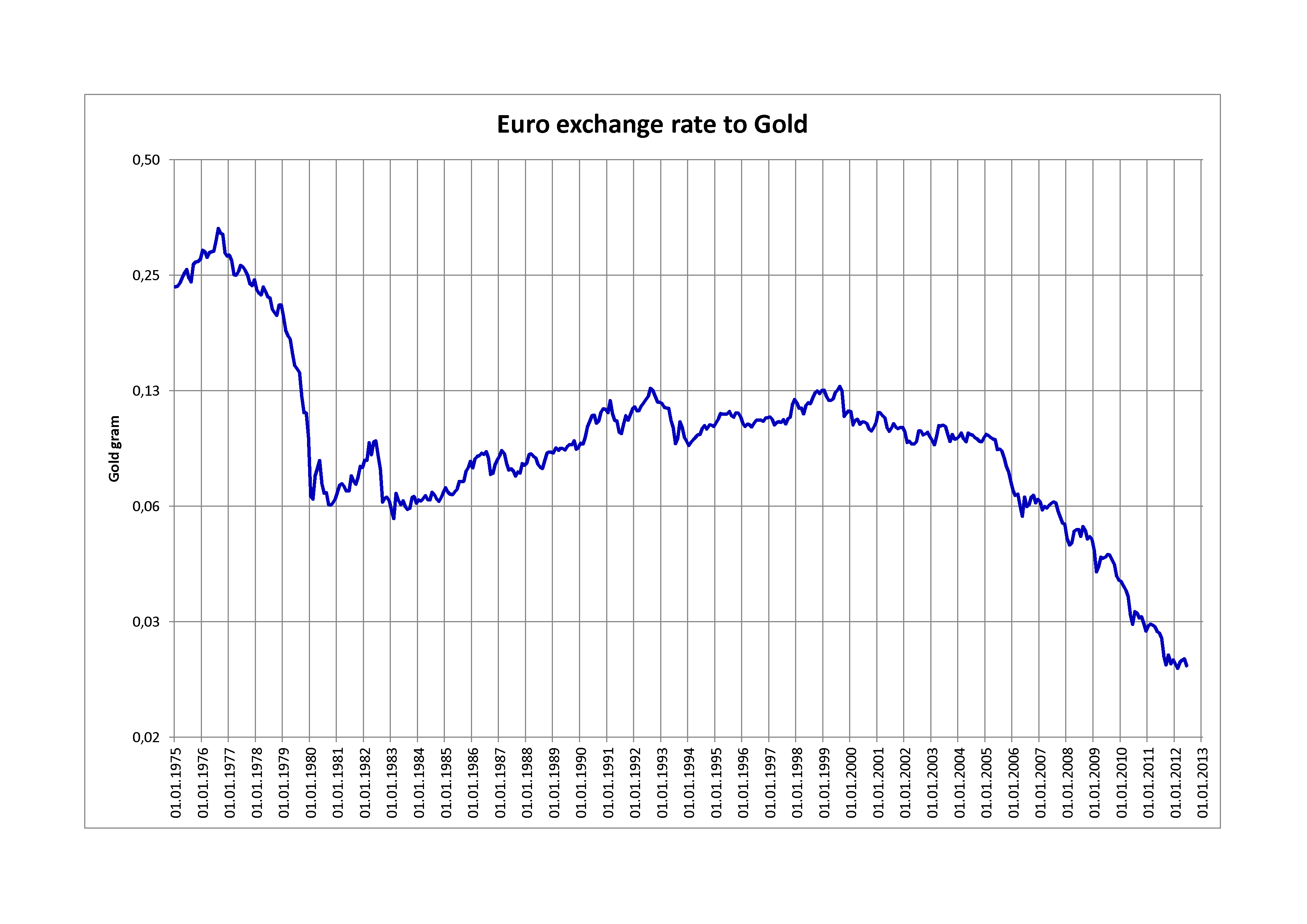 Exchange rate ECU/EUR - Gold from January 1975 to June 2012 (monthly average)